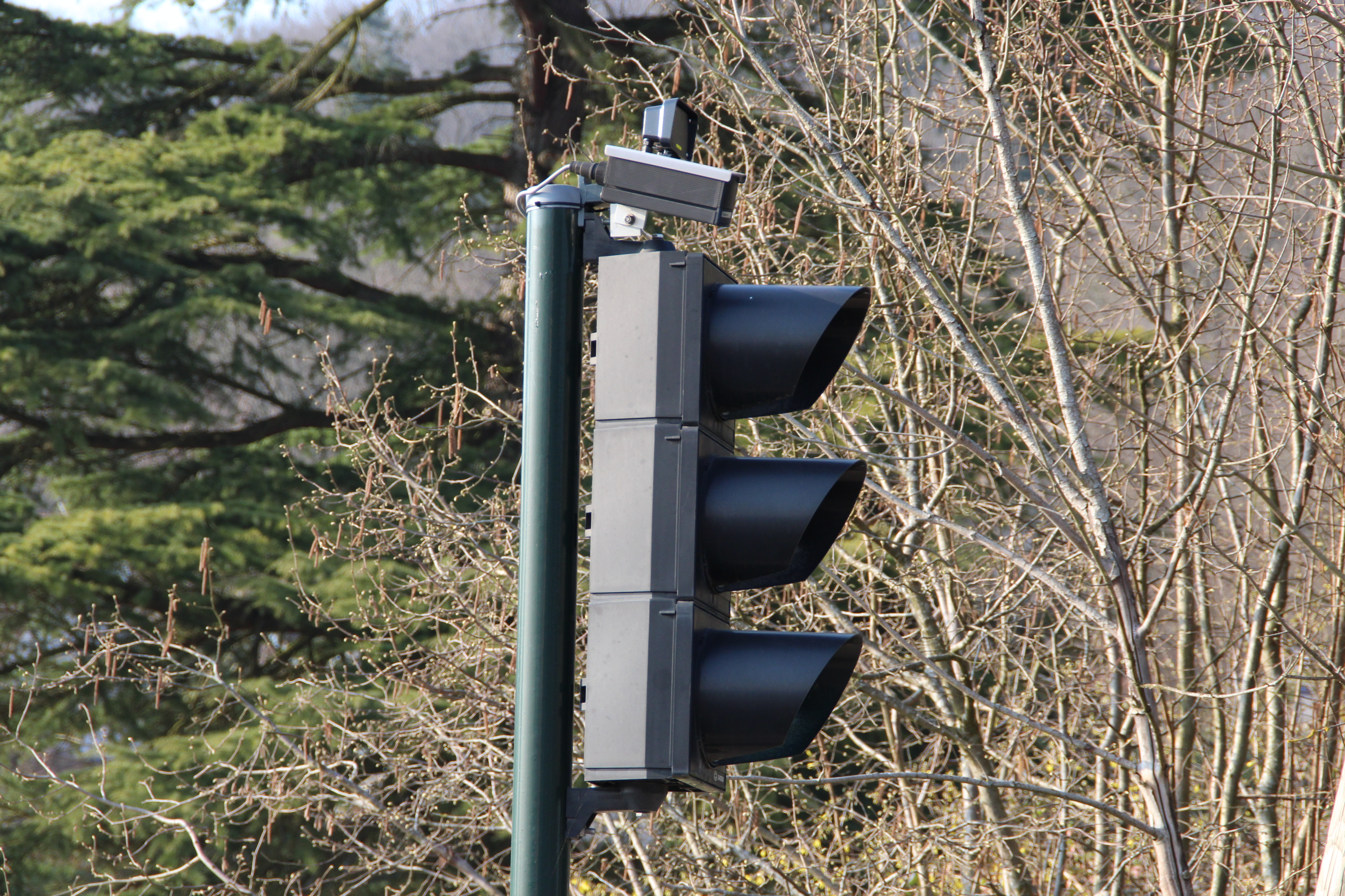 Traffic lights with radar Général Leclerc avenue in Gif-sur-Yvette, France.